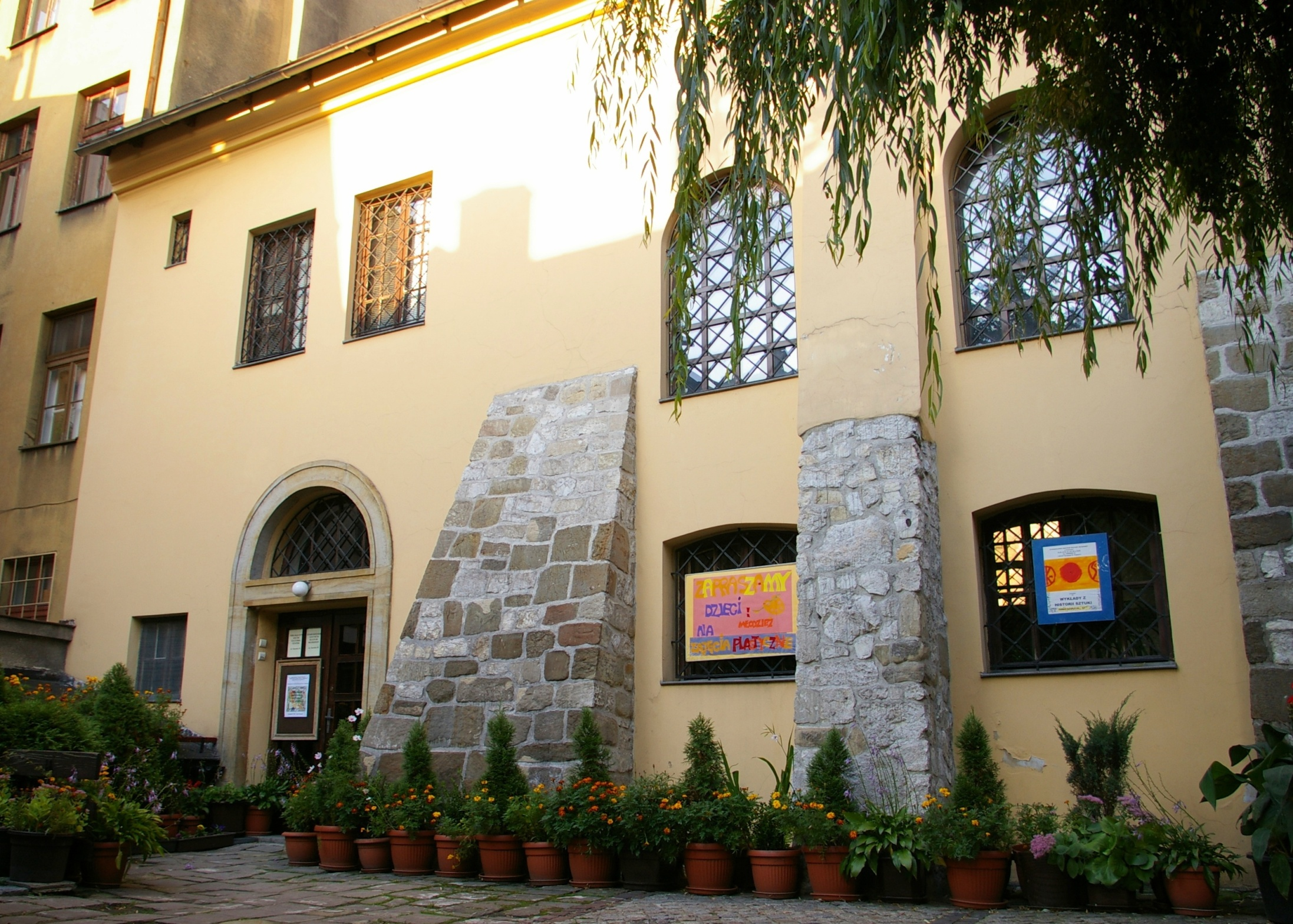 The Popper Synagogue in Kraków